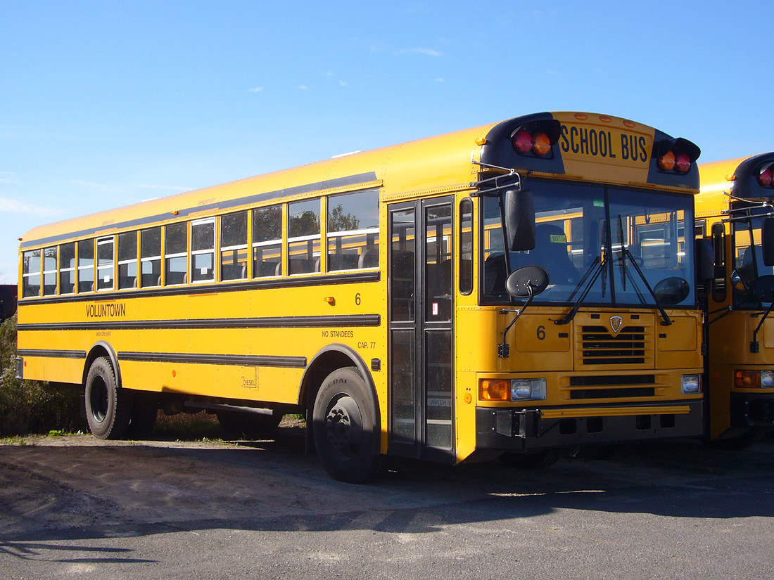 An IC FE school bus from Voluntown, Connecticut, photographed in Portland, Maine.